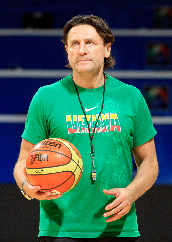 Basketball coach Valdemaras Chomicius